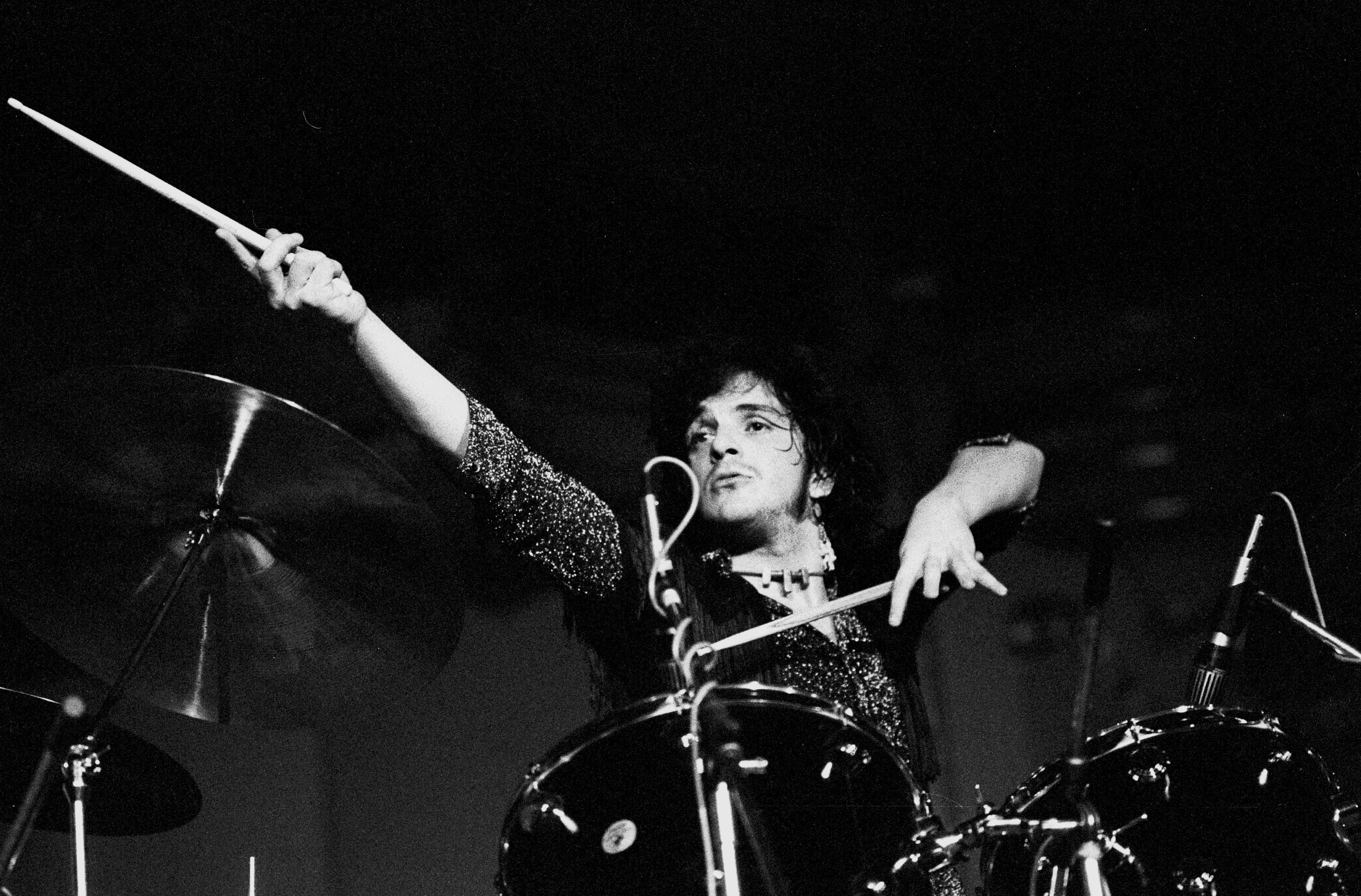 West, Bruce & Laing Gescheiterter Anlauf zur Installation einer neuen "Supergroup", aber gute Musik: West, Bruce & Laing, Musikhalle Hamburg, April 1973: Hier Corky Laing West, Bruce and Laing --Corky Laing is the drummer